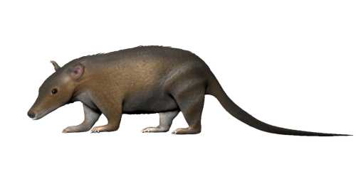 Herpetotherium fugax